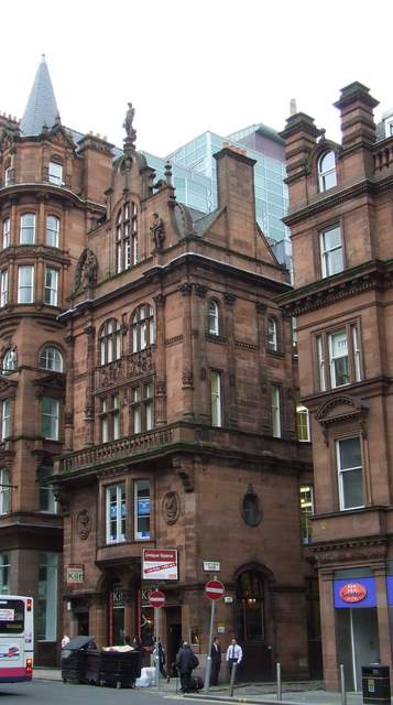 Red sandstone buildings on Hope Street. See the statue atop the middle building here 997798.